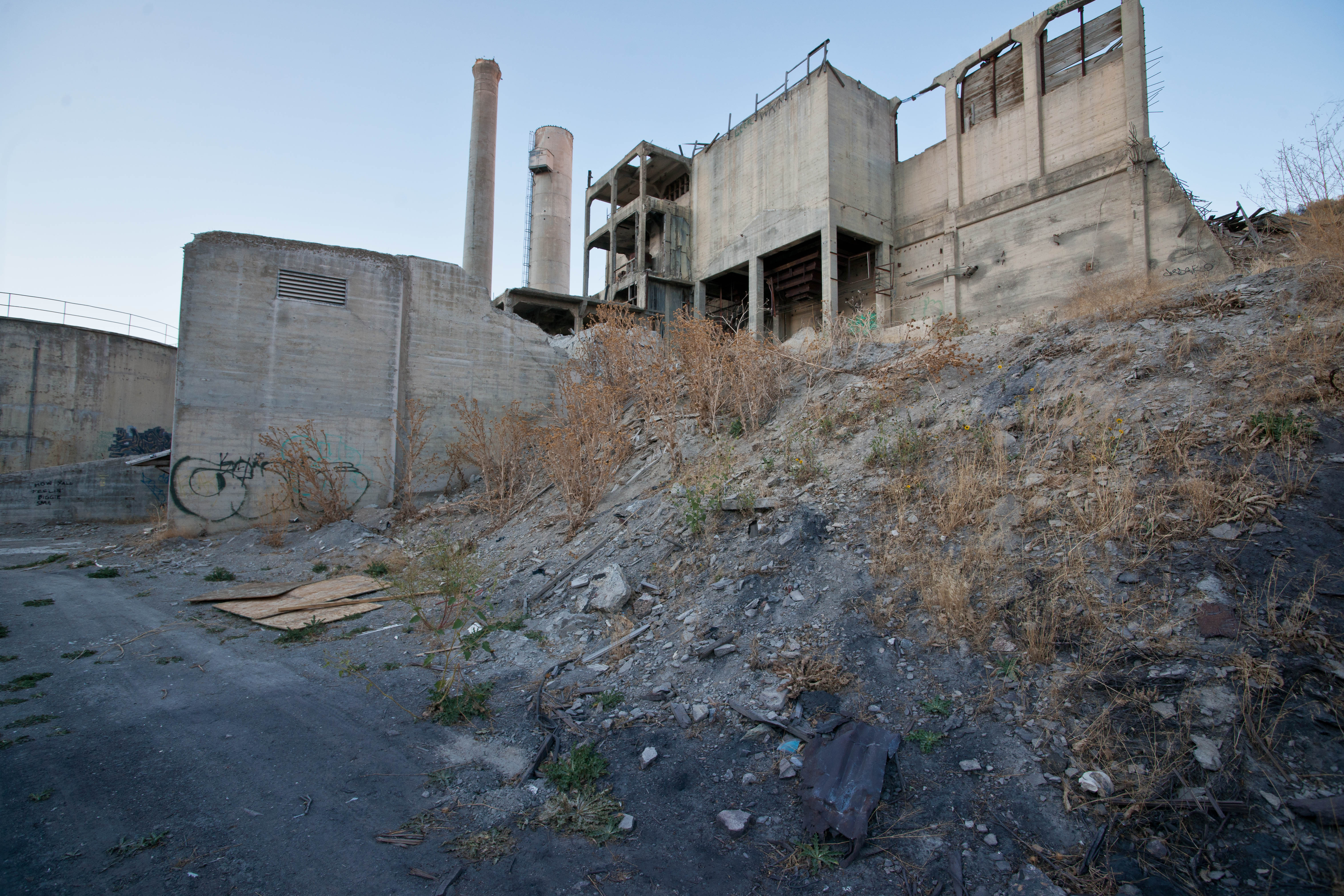 From